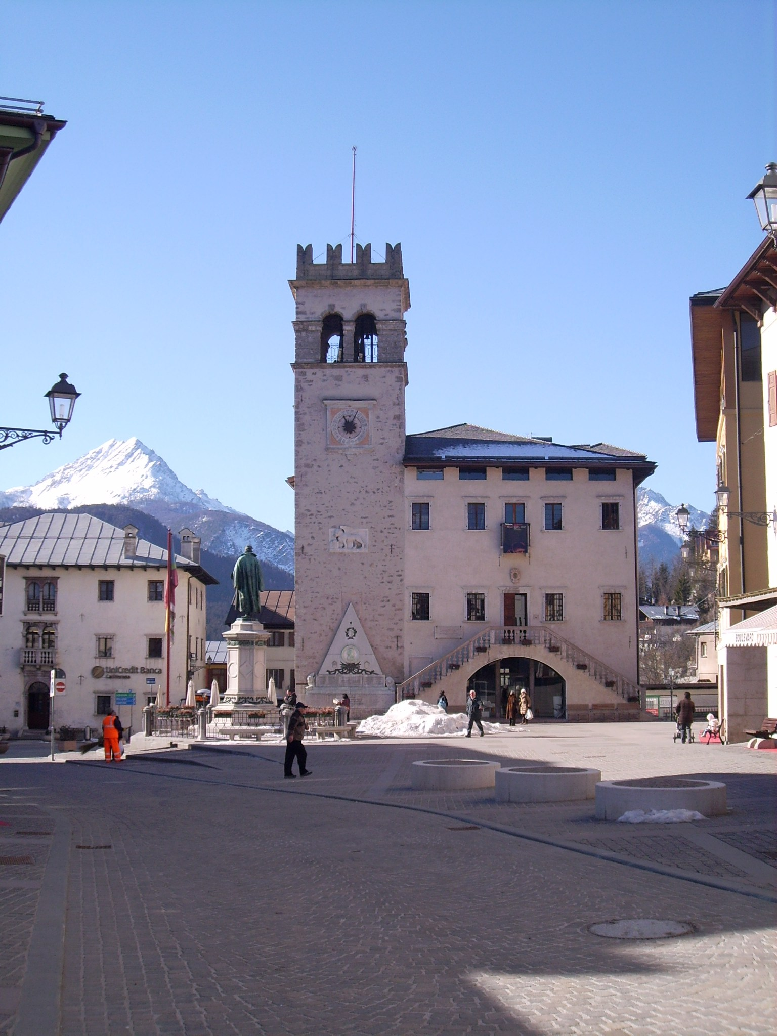 Main square of Pieve di Cadore,Belluno,Italy